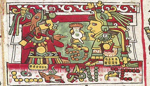 Two Mixtec Kings drinking and giving teh cacao licour